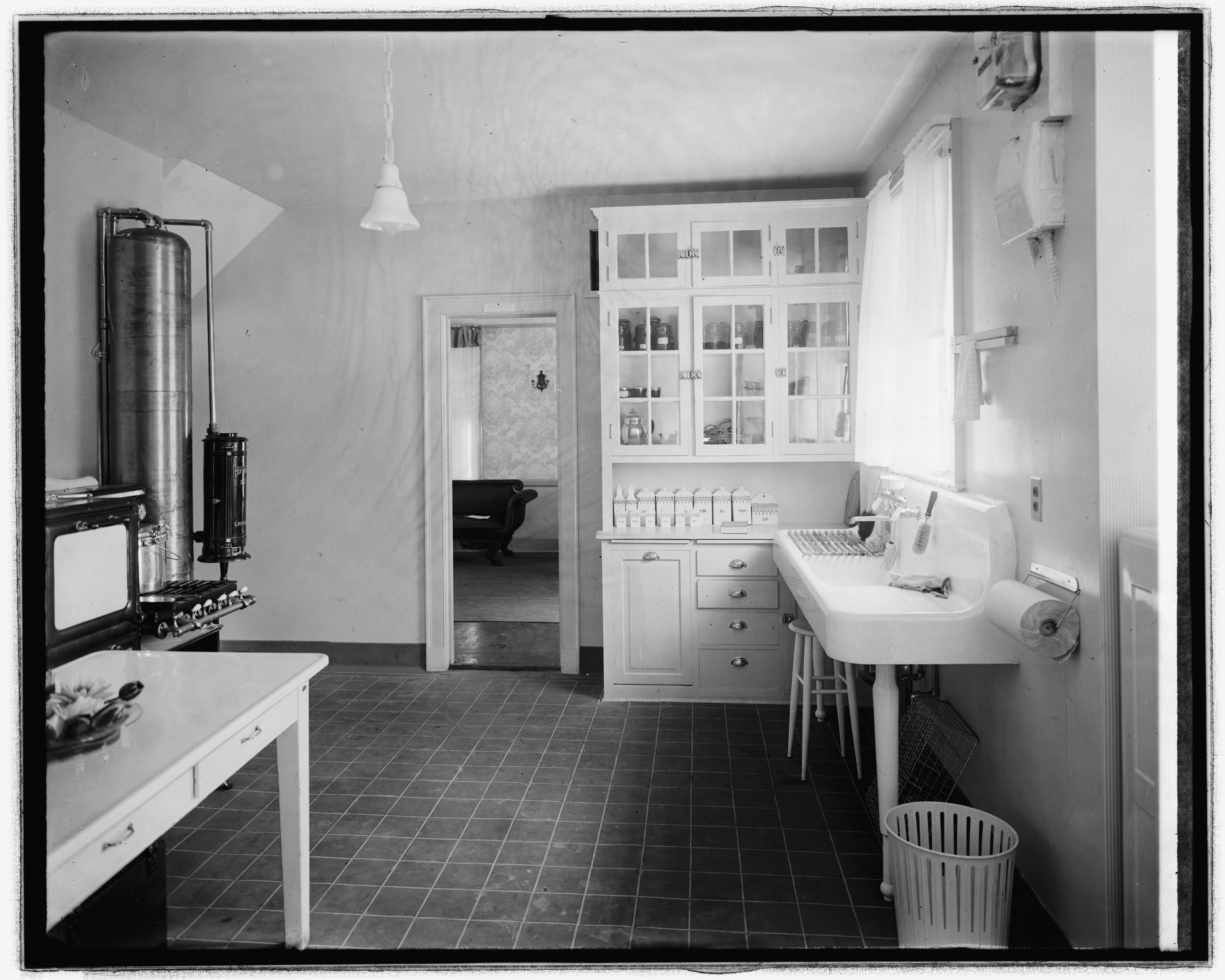 Title: Kitchen Abstract/medium: 1 negative : glass ; 8 x 10 in. or smaller.